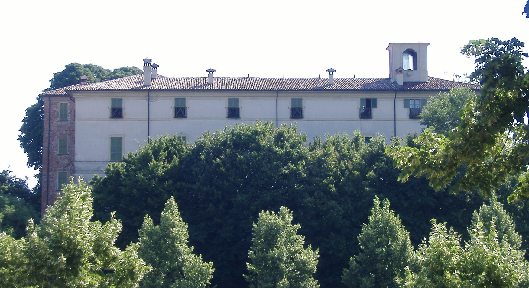 The Castle Cavazzi, in Somaglia, (LO), Italy